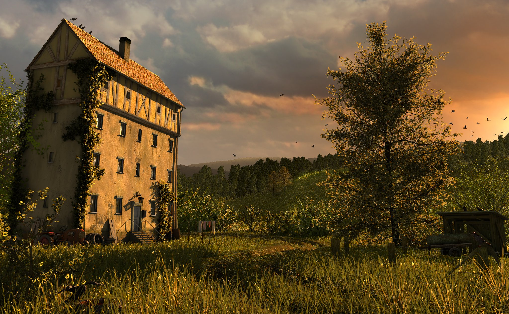 A lone house. An image made using Blender 3D.